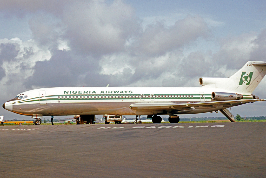 Boeing 727-2F9 5N-ANQ of Nigeria Airways at Lagos Ikeja Airport in 1980